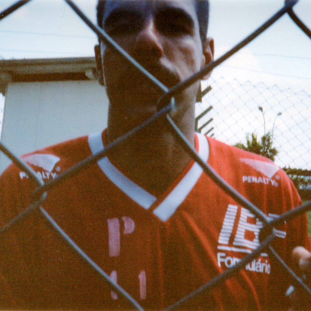 Antônio Carlos Cerezo, better known as Toninho Cerezo, was a Brazilian football player.